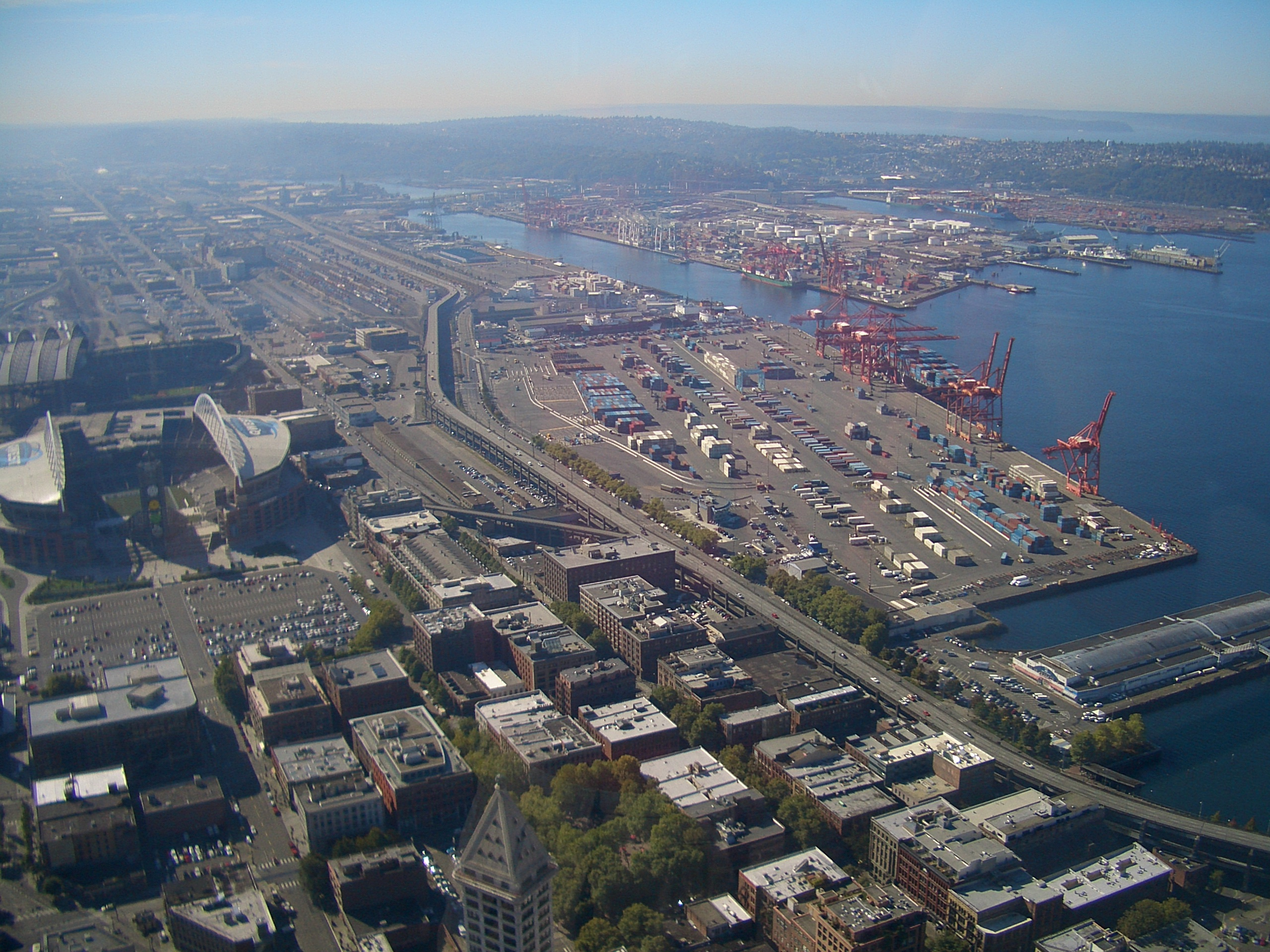 Looking west-south-west from the observation deck of Columbia Center, Seattle. QWEST Arena; Port of Seattle.